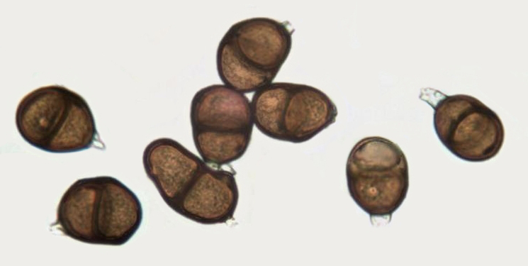 Puccinia hieracii on Hieracium sp, Minera, North Wales, July 2017 2